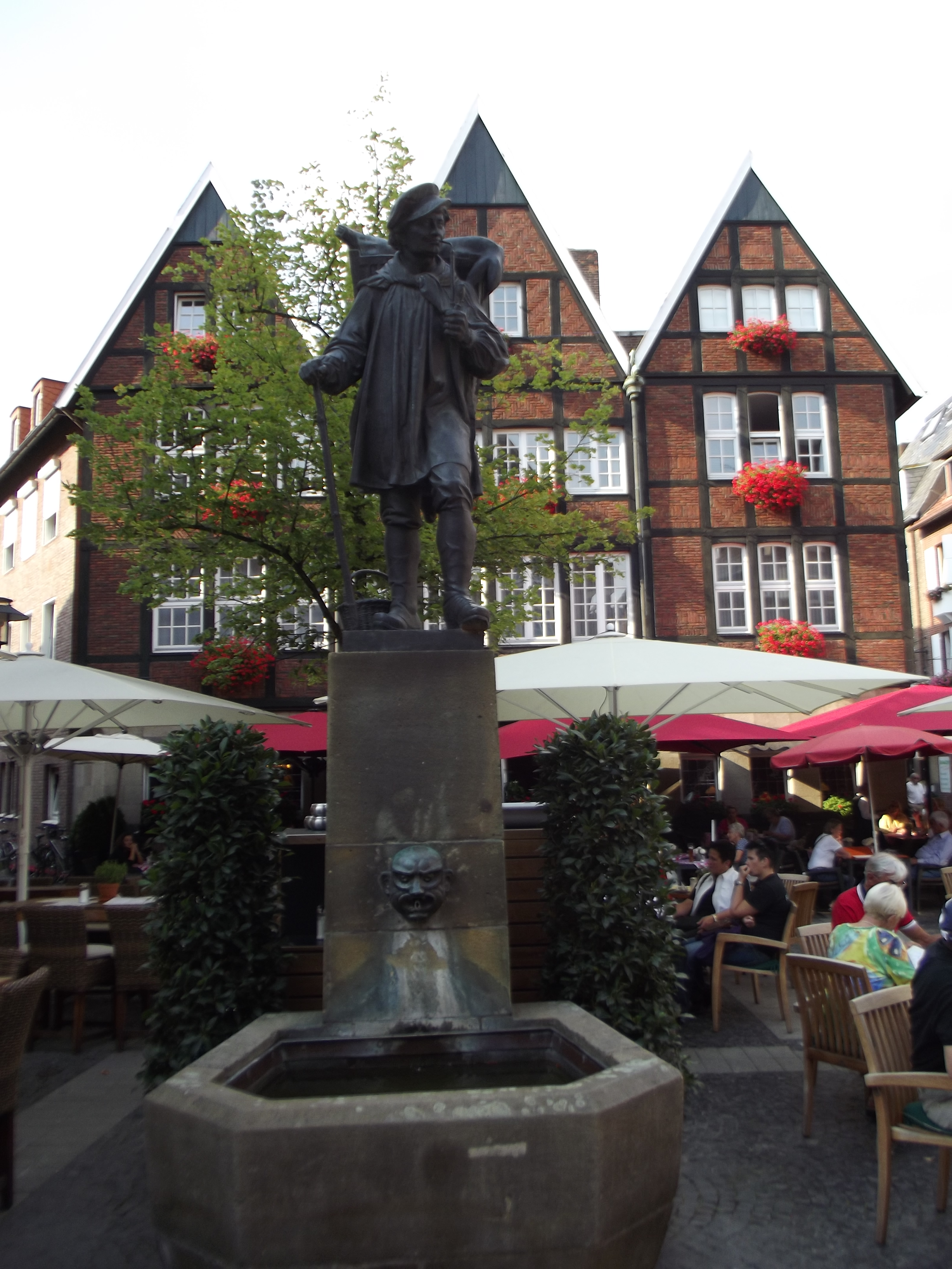 Kiepenkerl statue in the centre of Münster 2013